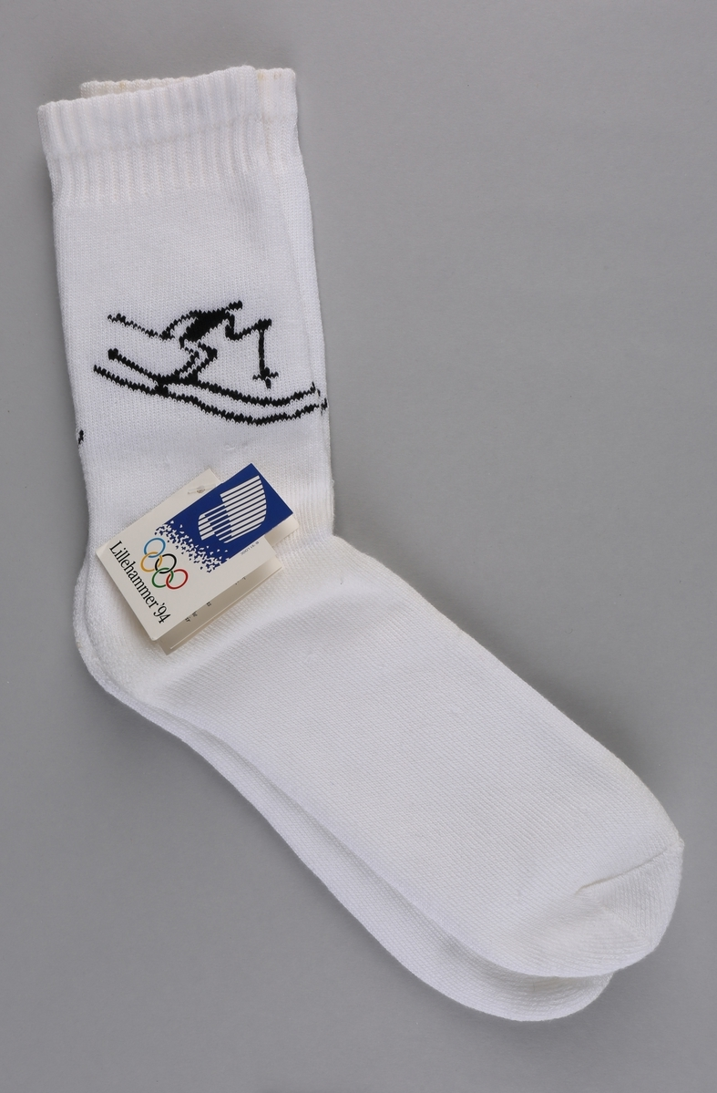 Knitted socks from Safa-Samnanger produced for the 1994 Winter Olympics at Lillehammer, Norway. (Object NTMT.02733, The Norwegian Knitting Industry Museum).